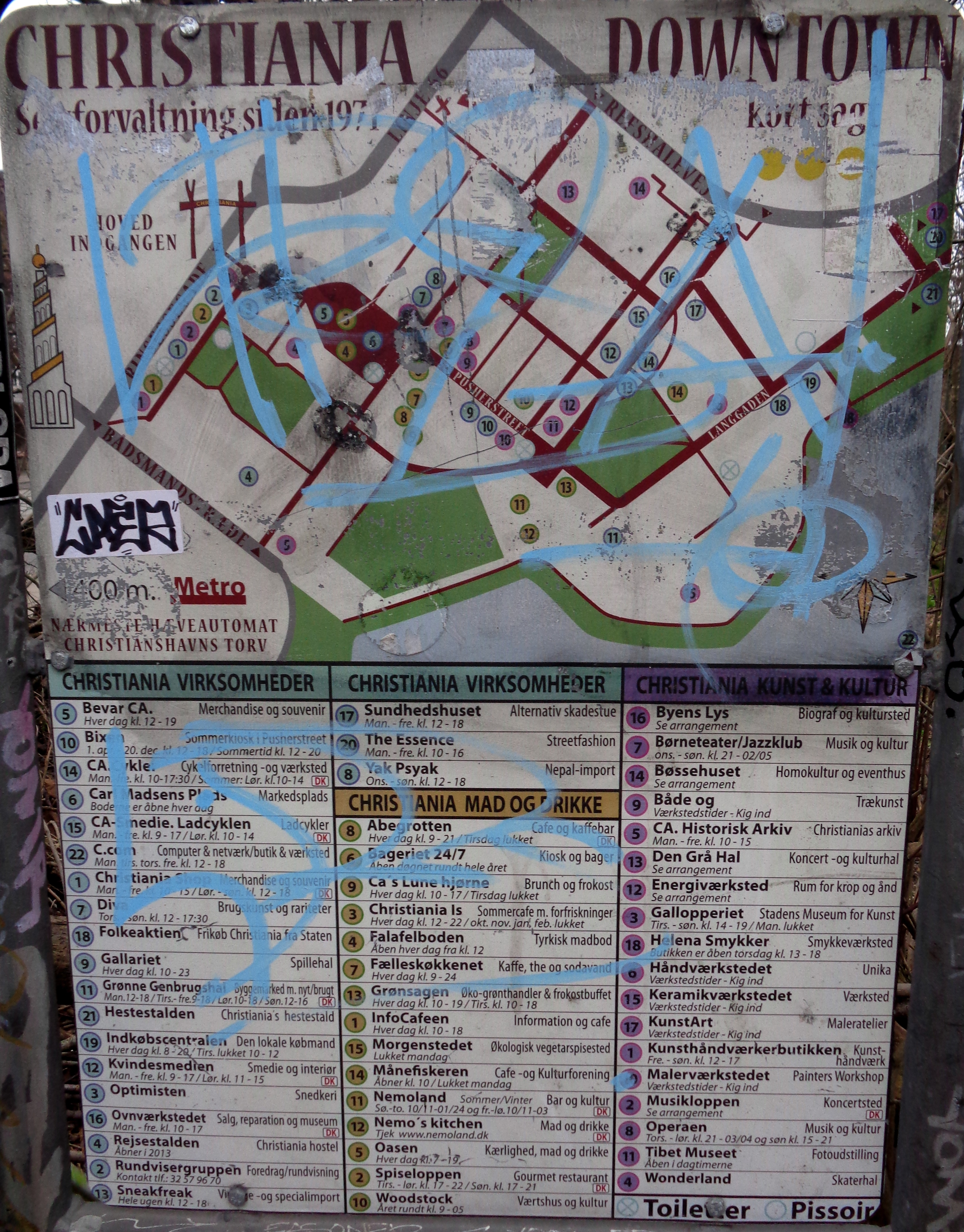 Christiania Downtown Map